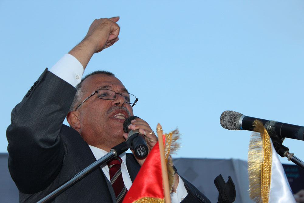 Noureddine Bhiri, candidate to the Tunisian Constituent Assembly as representative of Ennahdha